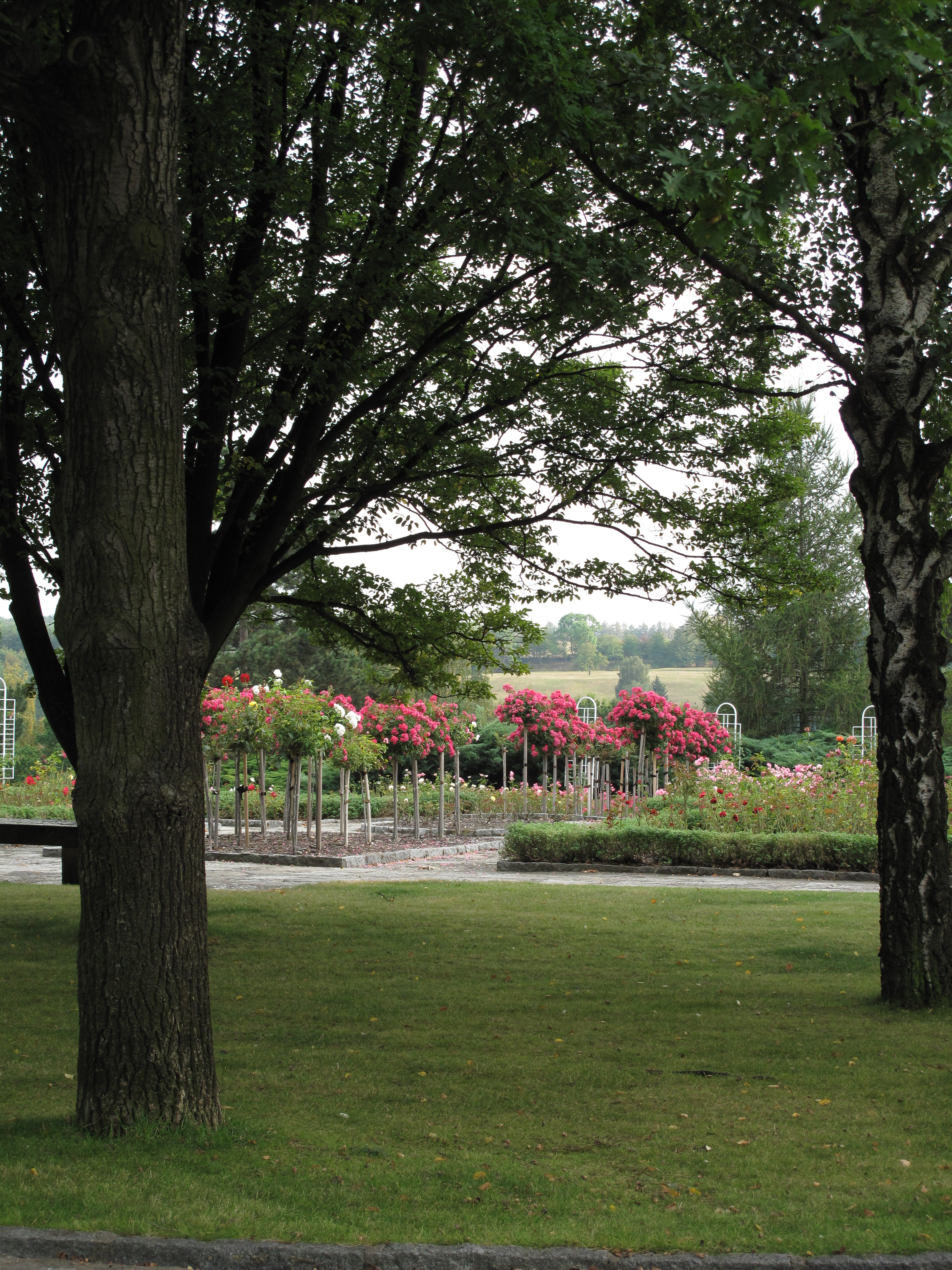 Rose Garden, Lidice Memorial, Czech Republic.